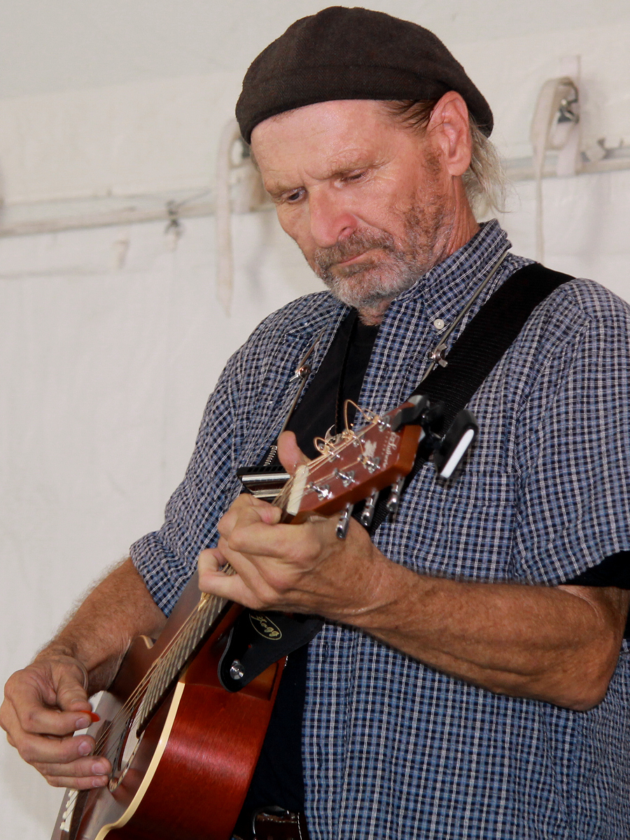 Butch Hancock performing at the 2011 Texas Book Festival, Austin, Texas, United States.